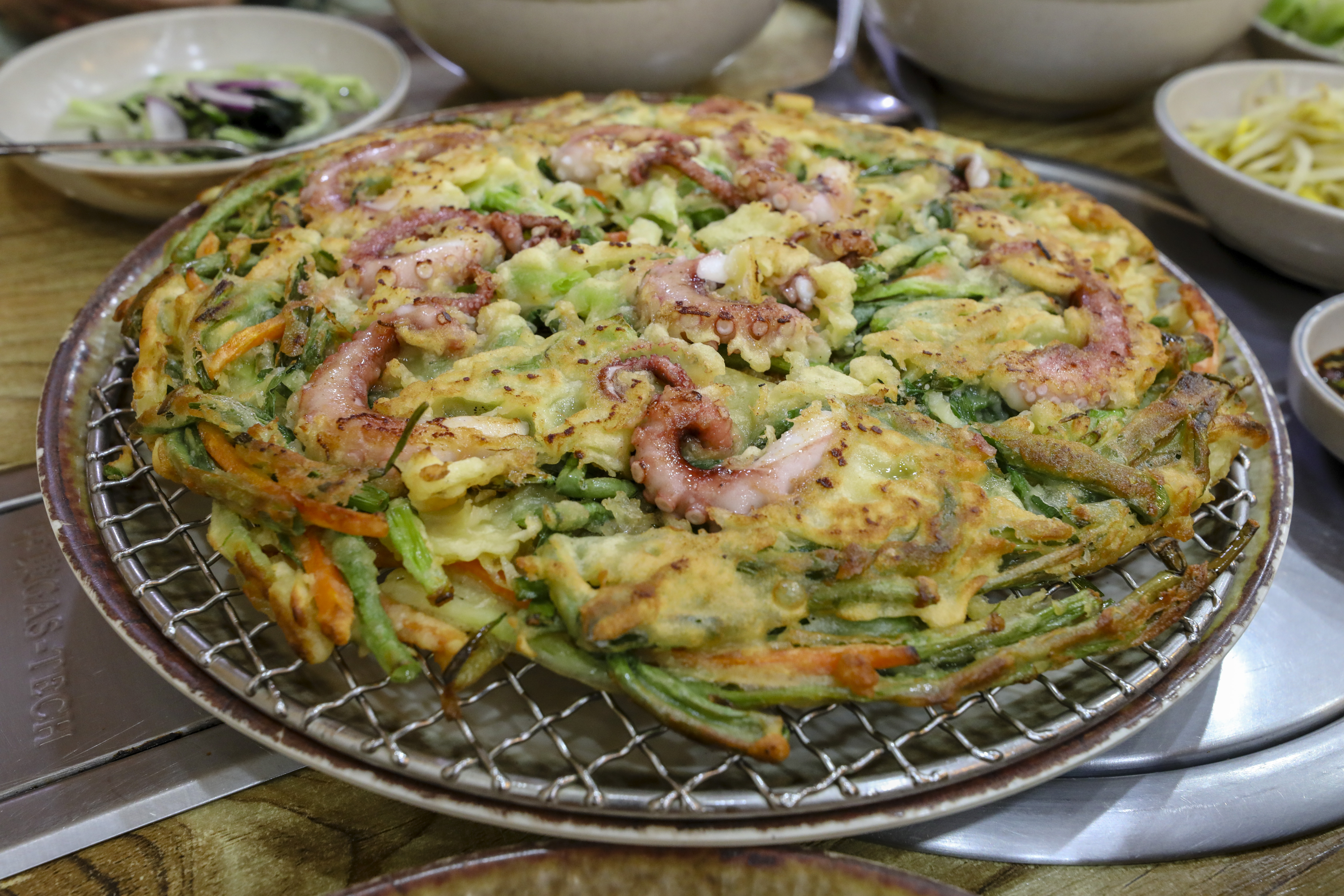 Haemul-pajeon (scallion pancake with seafood)